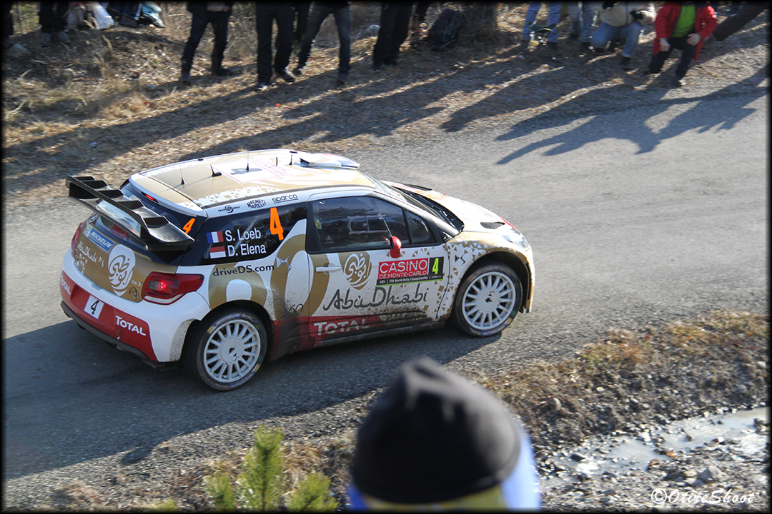 Sébastien Loeb at Monte-Carlo rally 2015 - SS10